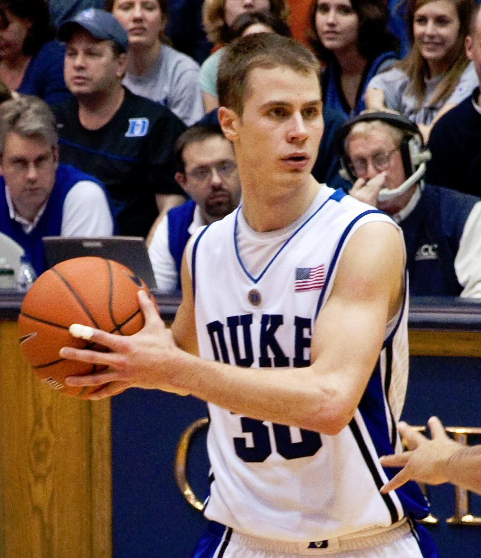 Duke Blue Devils vs. Long Beach State